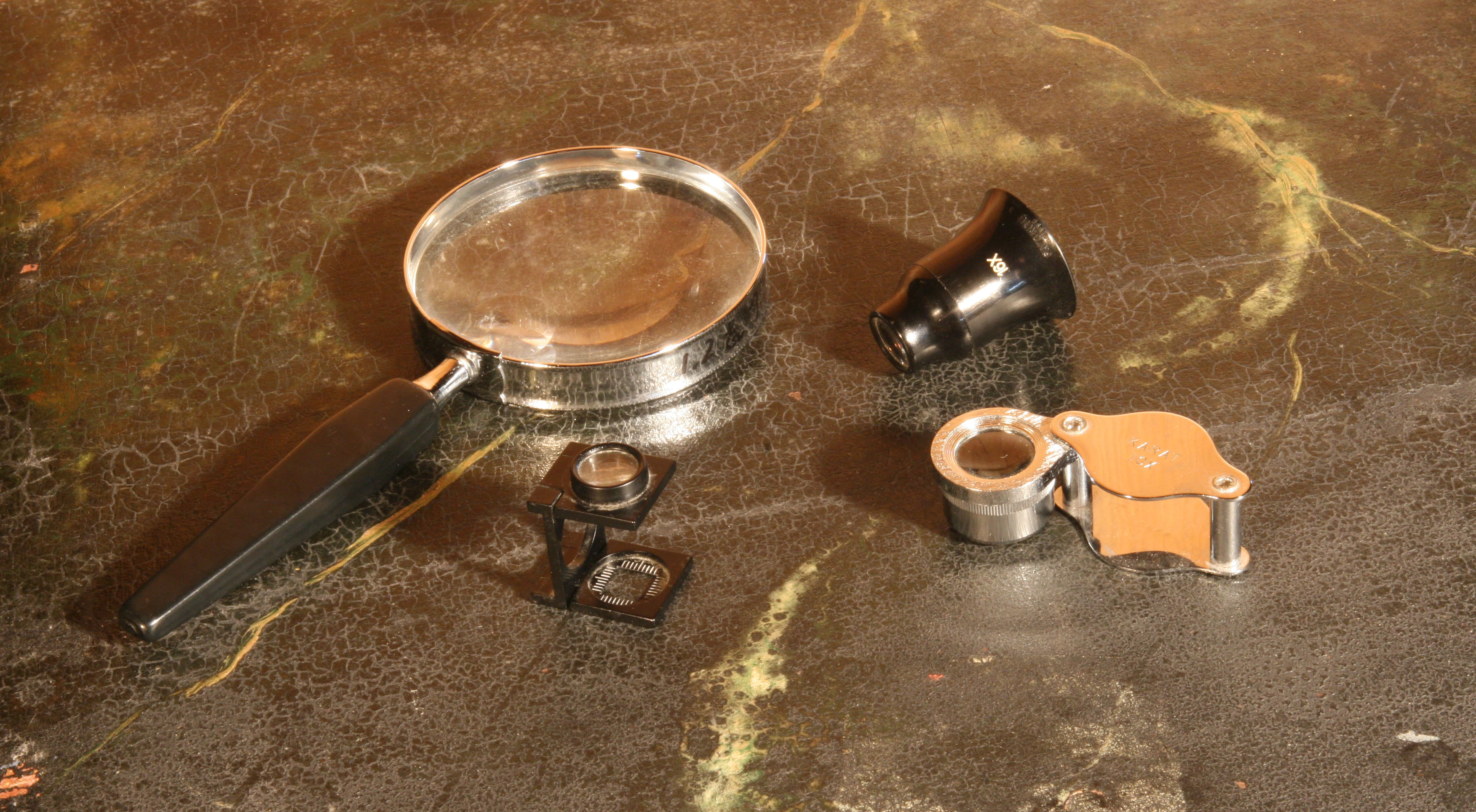 Some types of magnifying glasses.